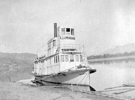 Selkirk (sternwheeler) somewhere in British Columbia (problably Kamloops, Thompson River, or Columbia River) ca 1900.